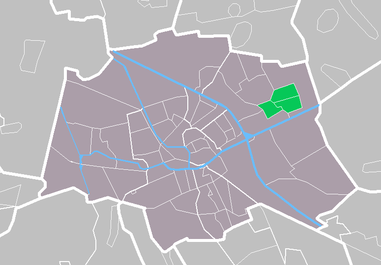 Location of neighbourhoods/districts in Groningen (city)